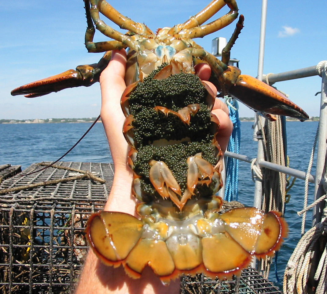 "A previously V-notched lobster is recaptured carrying eggs."